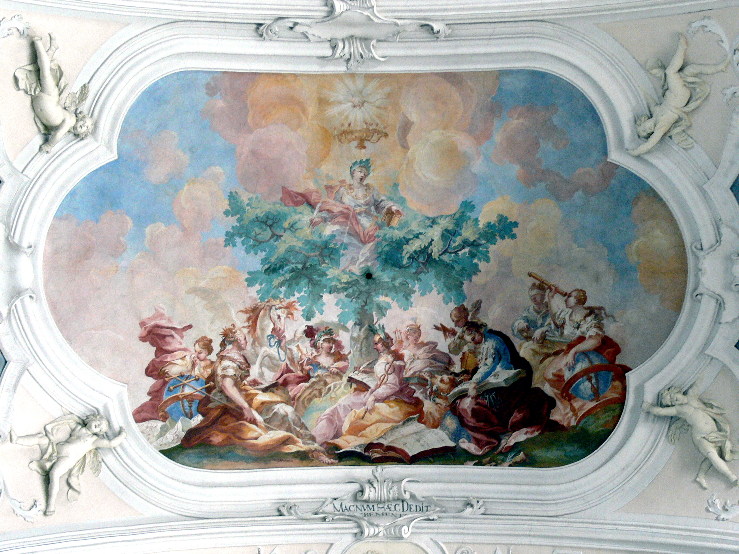 Niederaltaich abbey church ( Lower Bavaria ). Fresco about the history of the abbey at the ceiling of the nave: Arts and sciences are coming together under the protection of the oak tree, symbol of the abbey.